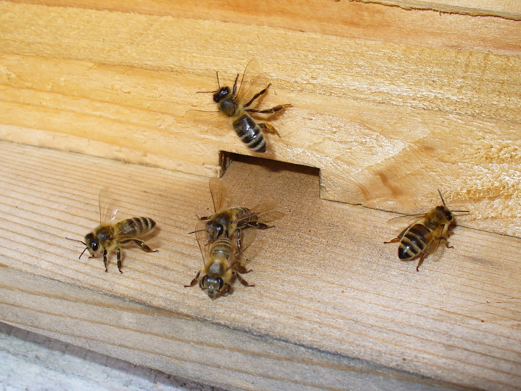 Apis mellifera, Apidae, European Honey Bee; Karlsruhe, Germany.